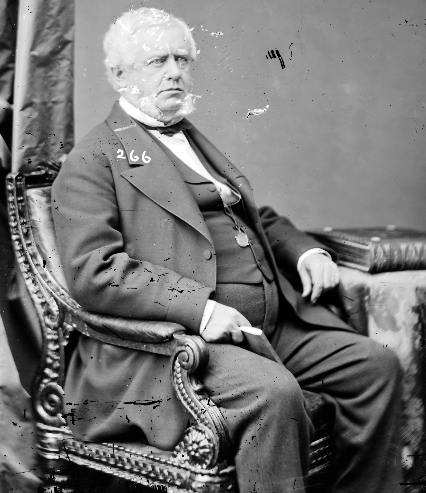 Samuel Hooper, US Representative from Massachusetts